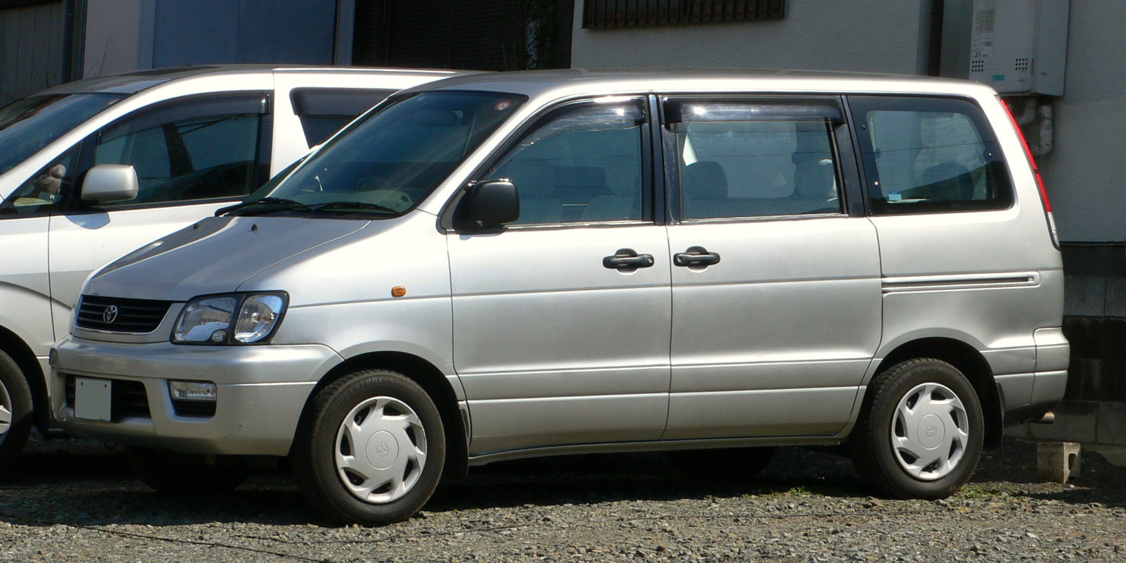 Toyota_Liteace-Noah (1998/12 - 2001/10)